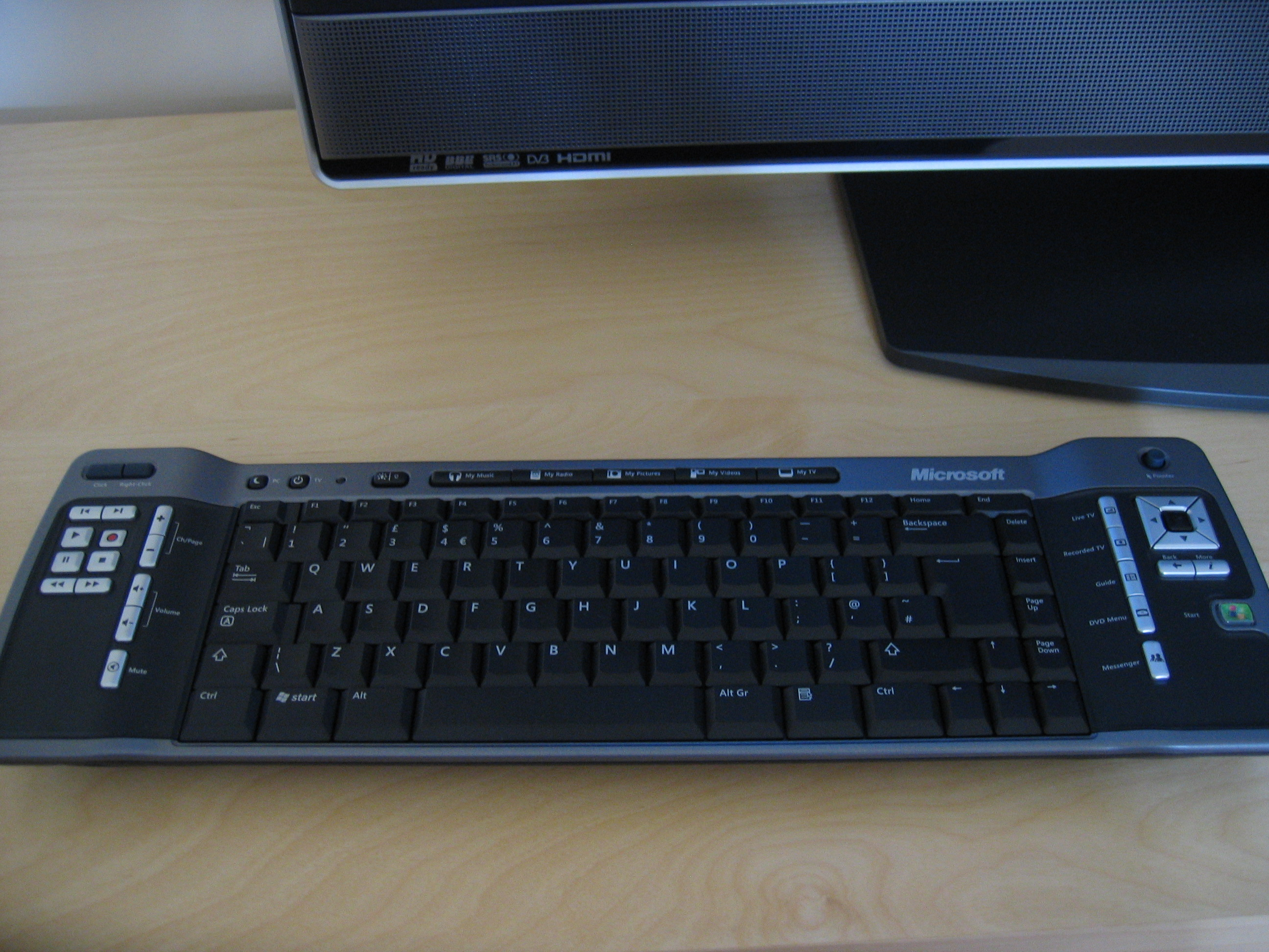 The keyboard, overall.